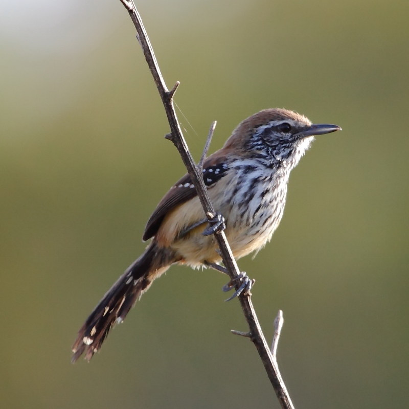 Rusty-backed Antwren (female) at Dourado - SP - Brasil